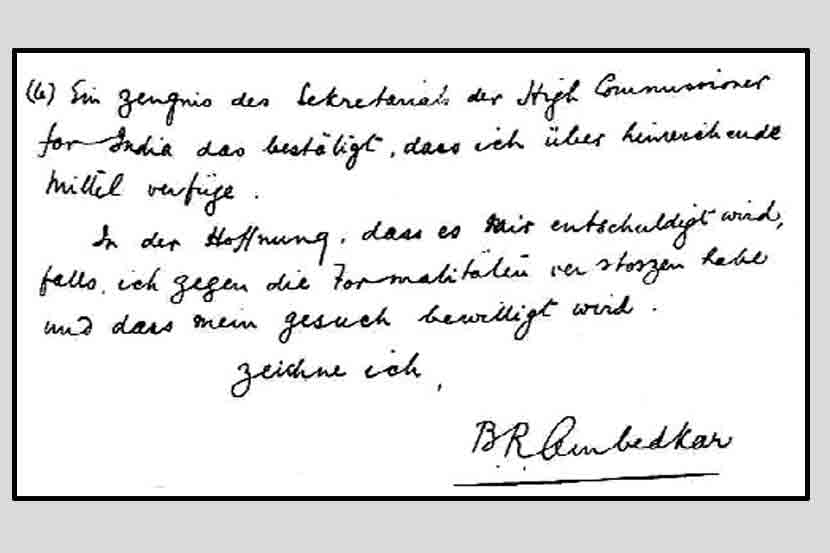 Dr. Babasaheb Ambedkar written a letter to the Bonn University in Fluent German language.